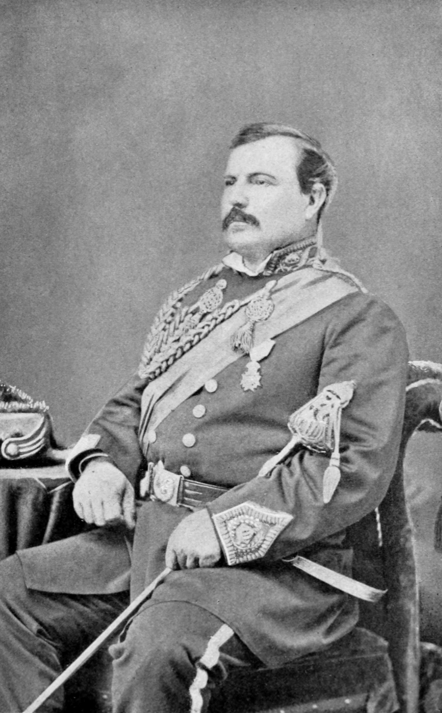 Colonel C. H. Judd, King Kalakaua's royal chamberlain.